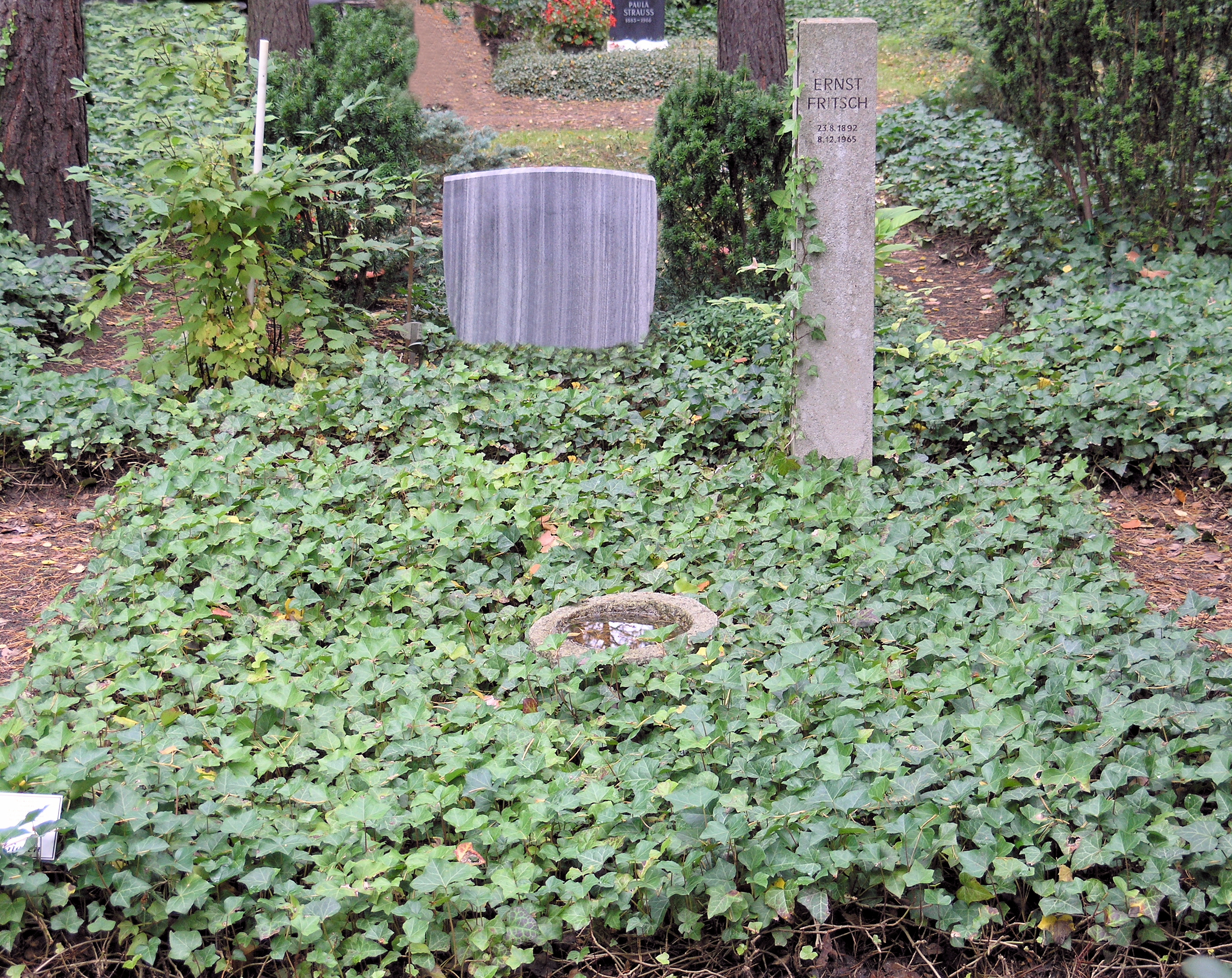 "Ehrengrab" (grave of honor), Ernst Fritsch, Potsdamer Chaussee 75, Berlin-Nikolassee, Germany Koordinate:52°25′23″N 13°12′38″E / 52.42306°N 13.21056°E